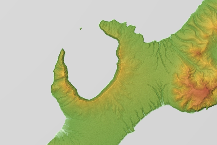 L'vinaya Past Caldera, Iturup, Kuril Islands, Russia. Also known as Moikeshi Caldera in Japan.